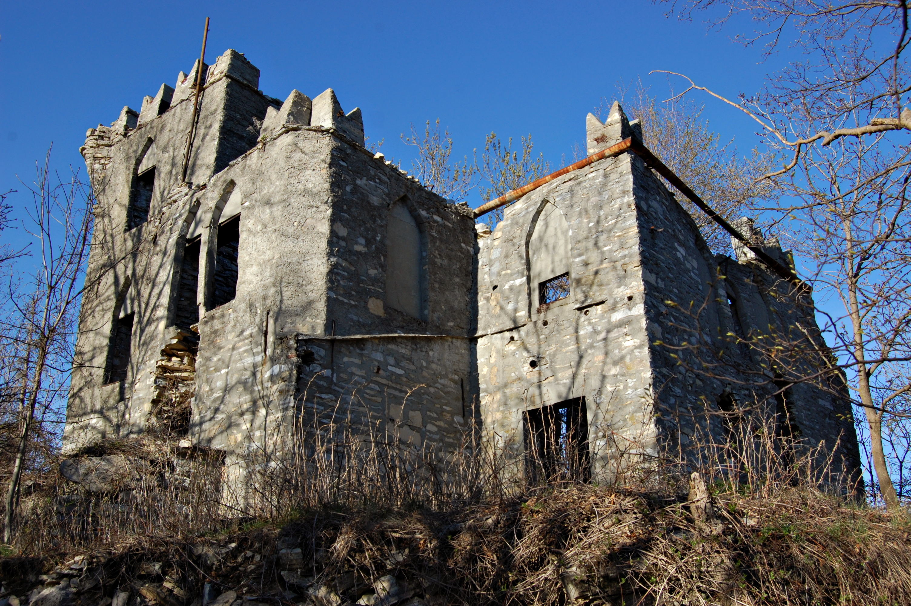 Ruins of "Castel d'Ardona" (1894), Blevio, Italy